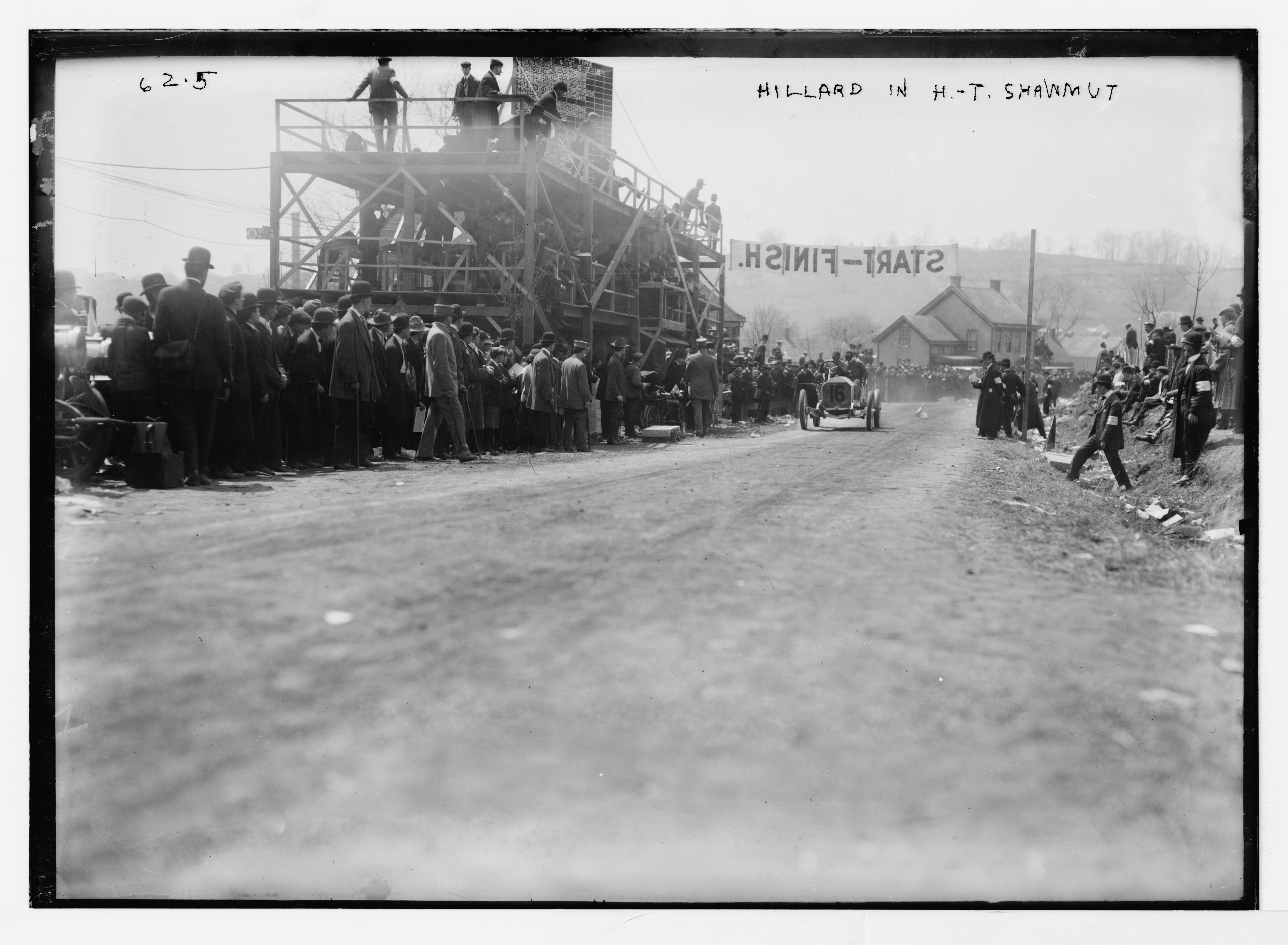 Title: Briarcliff Auto Race] Hillard H.T. Shawmut Abstract/medium: 1 negative : glass ; 5 x 7 in. or smaller.